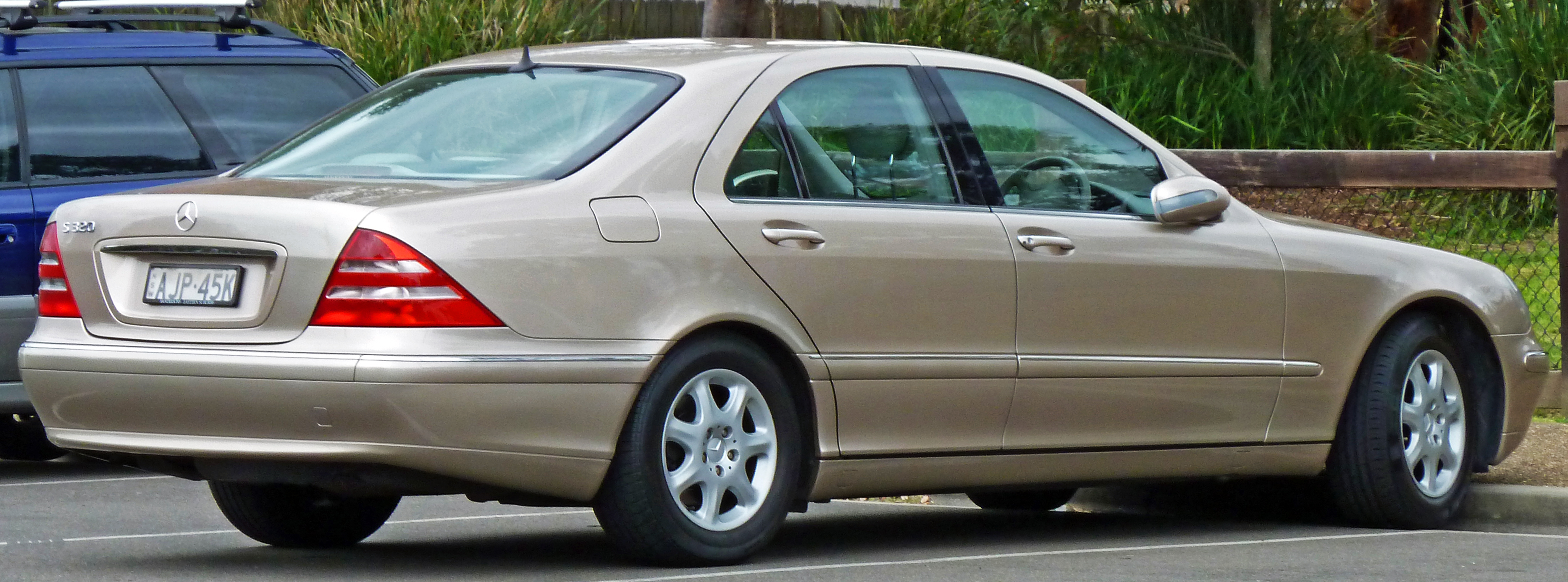 2000 Mercedes-Benz S 320 (W 220) sedan. Photographed in Gymea Bay, New South Wales, Australia.